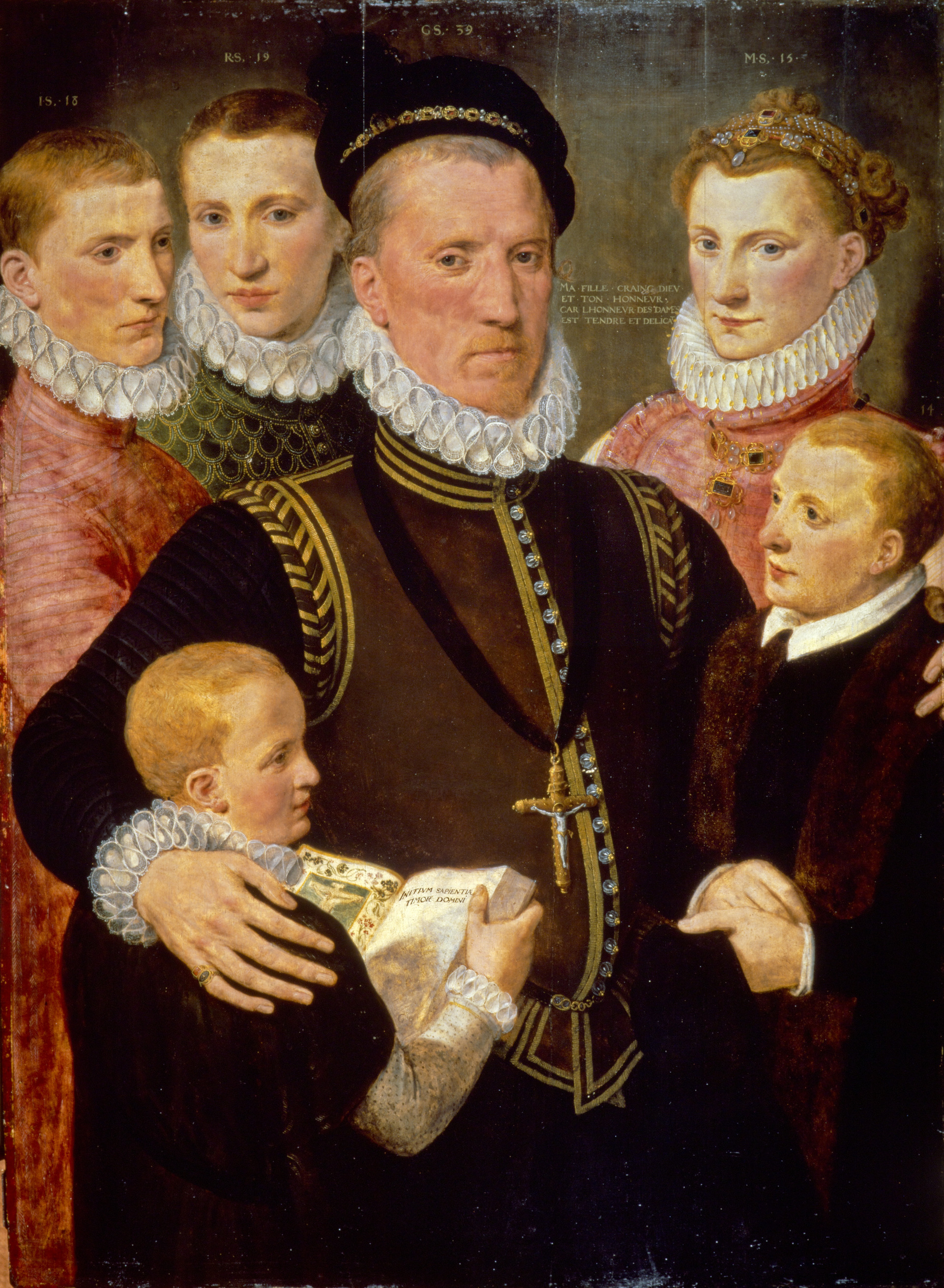 Portrait of George, 5th [or 7th] Lord Seton, and his family. Seton, a prominent Catholic supporter of Mary Queen of Scots, wears a crucifix.